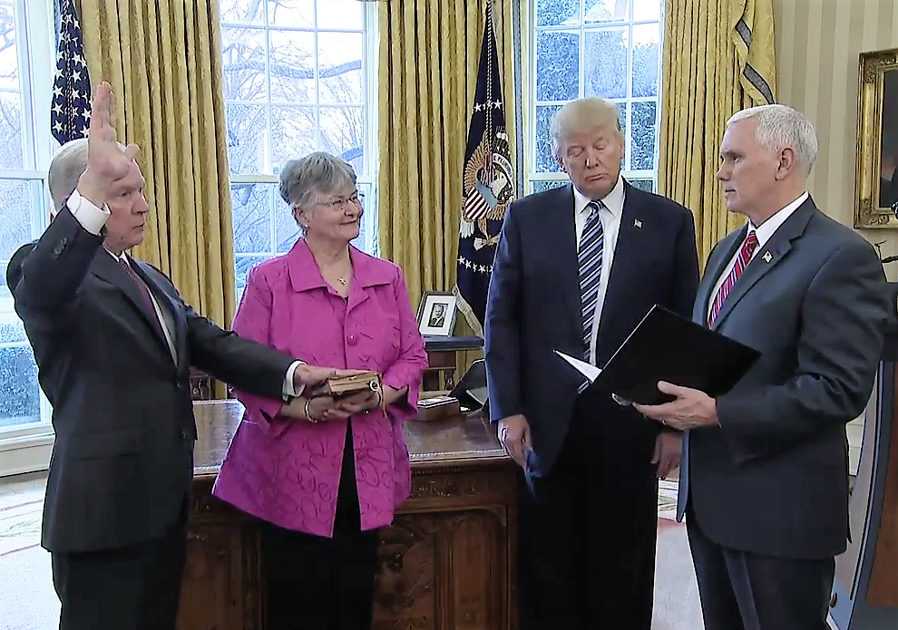 Vice President Michael R. Pence administers the oath of office to Jeff Sessions to be the 84th Attorney General of the United States.